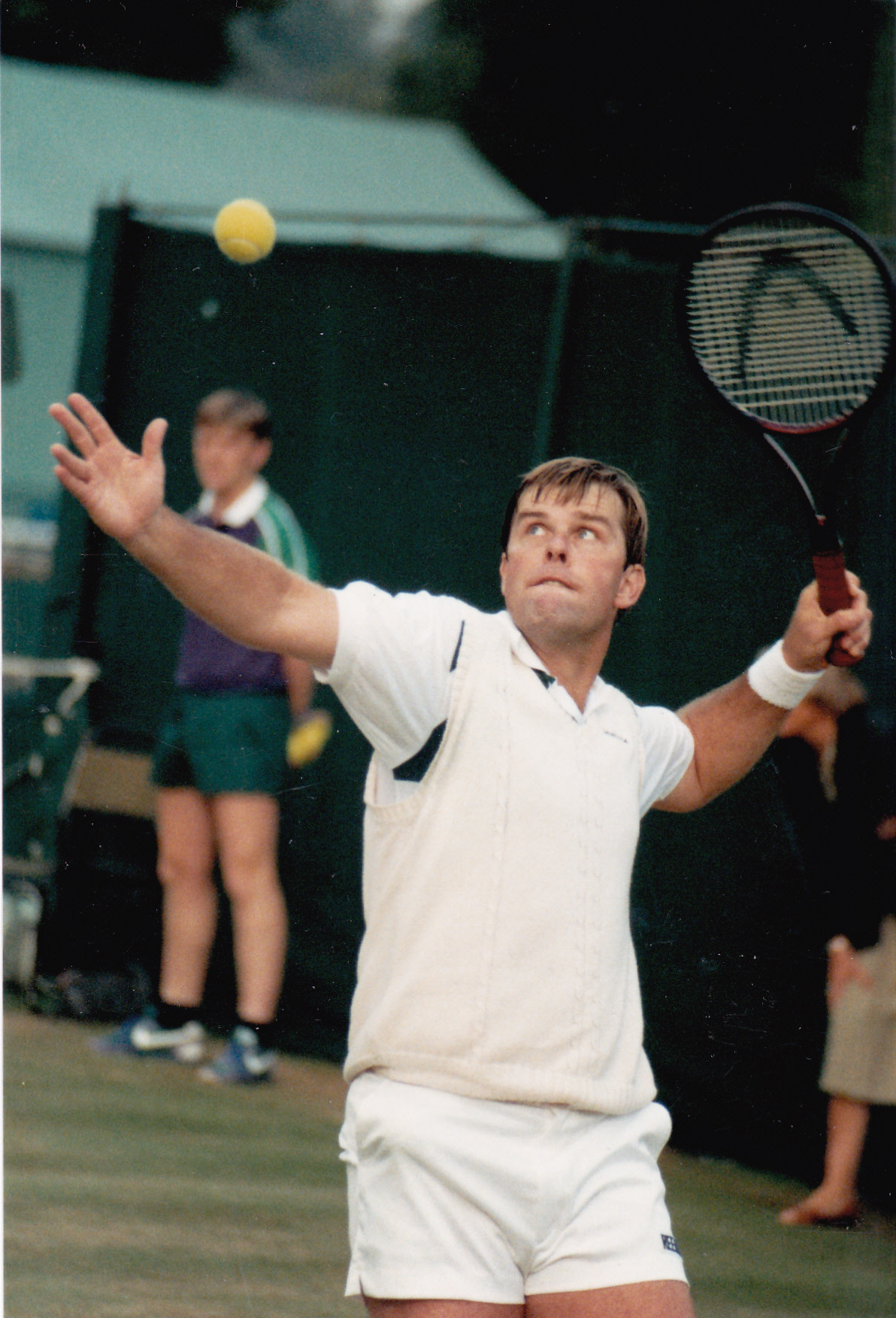 Roscoe Tanner Wimbledon circa 1988